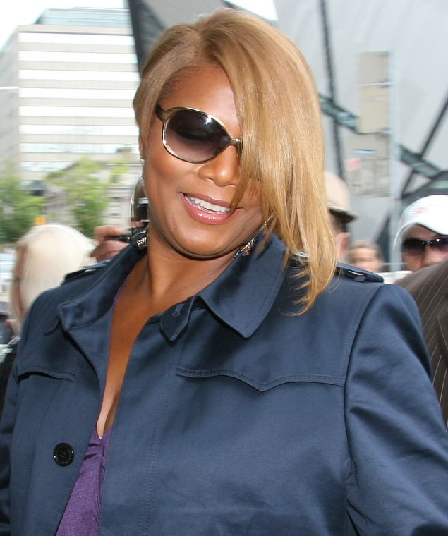 Queen Latifah at the 2008 Toronto International Film Festival